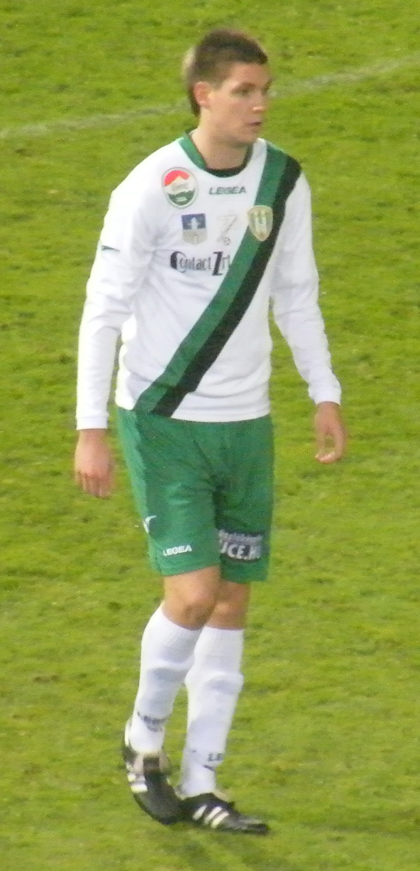 Richárd Guzmics Hungarian association football player.